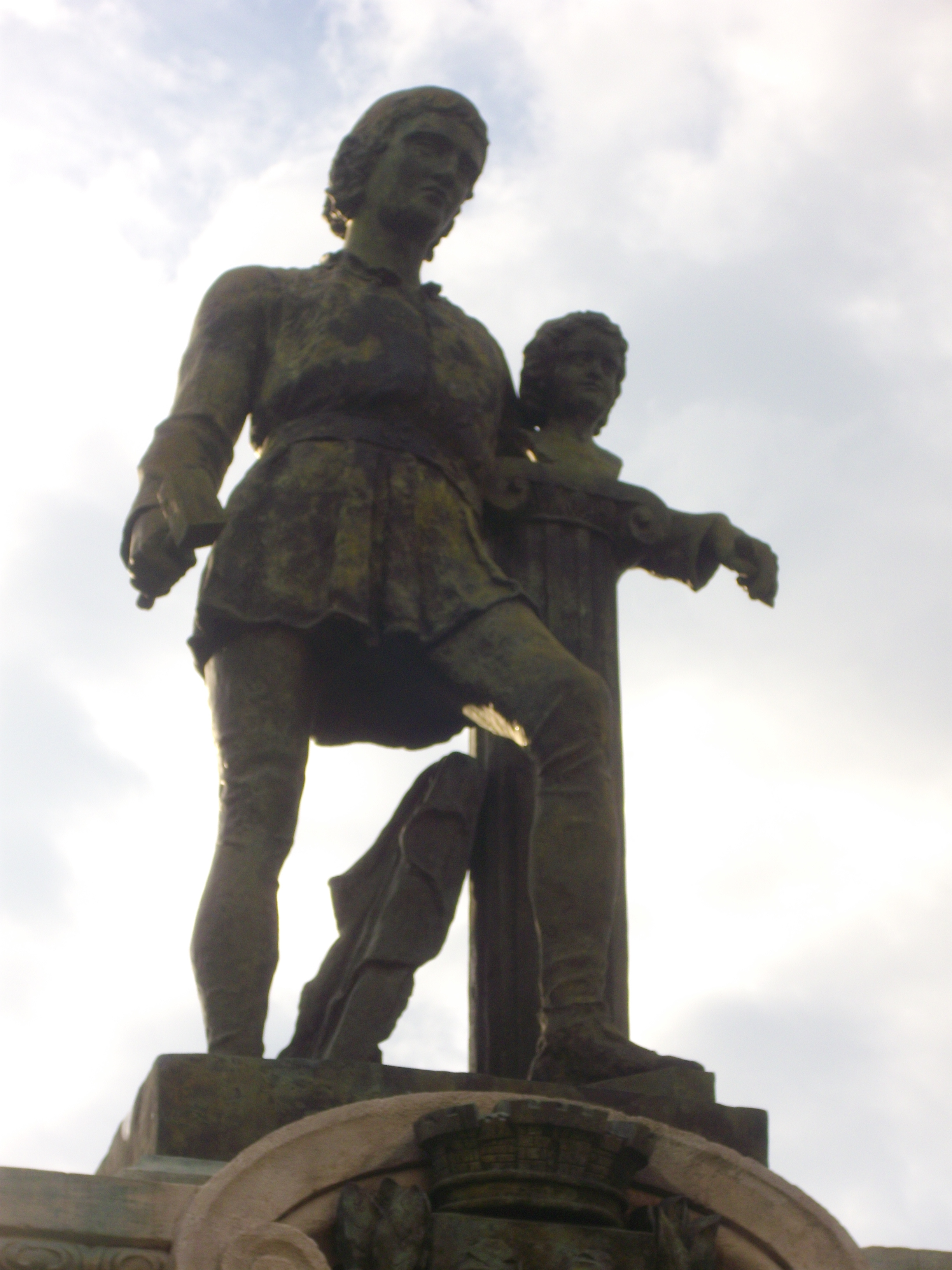 Statue of Ligier Richier in Saint-Mihiel (Meuse, France)